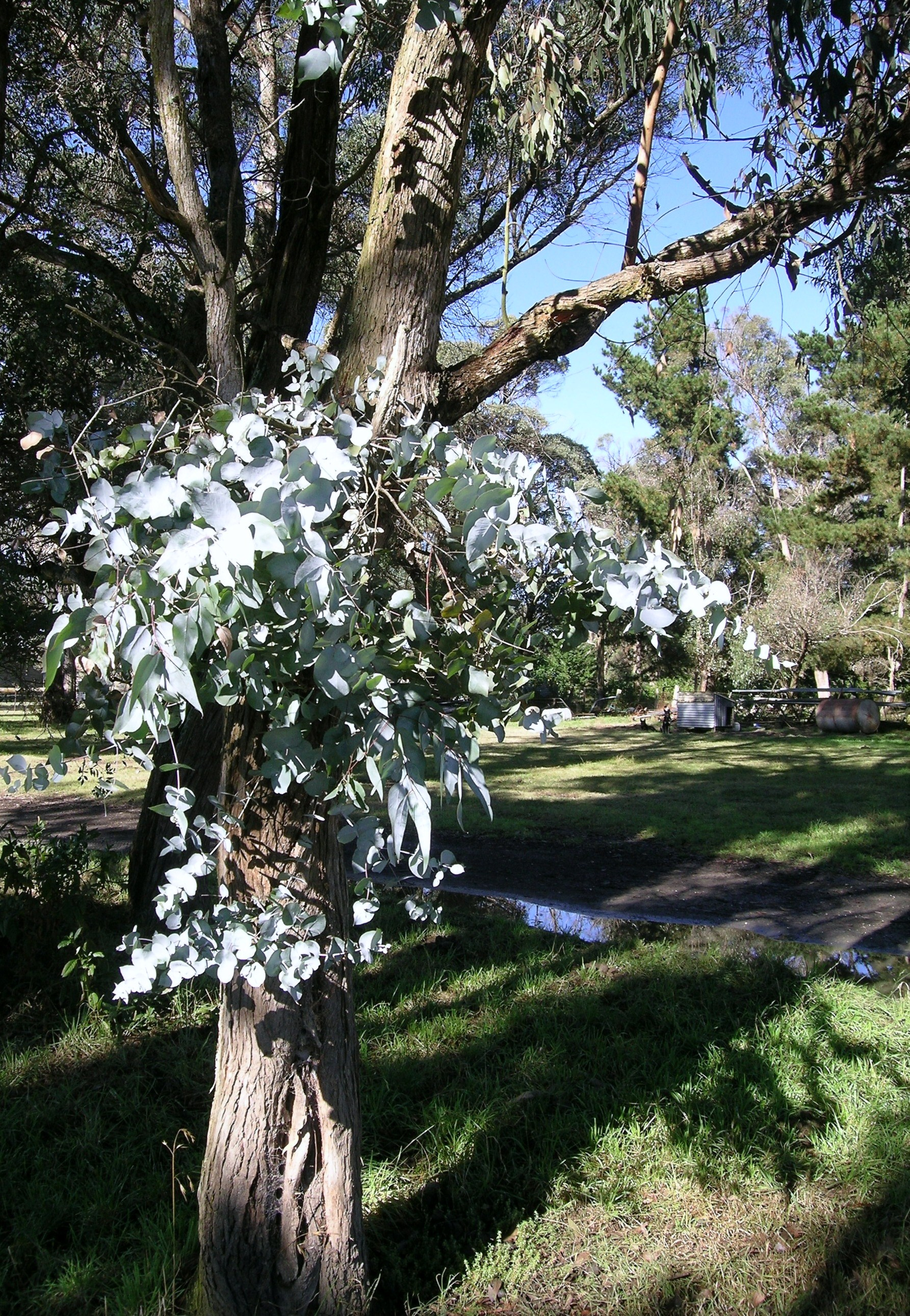 Bark & juvenile foliage of Eucalyptus nova-anglica, New England Peppermint, Walcha, NSW